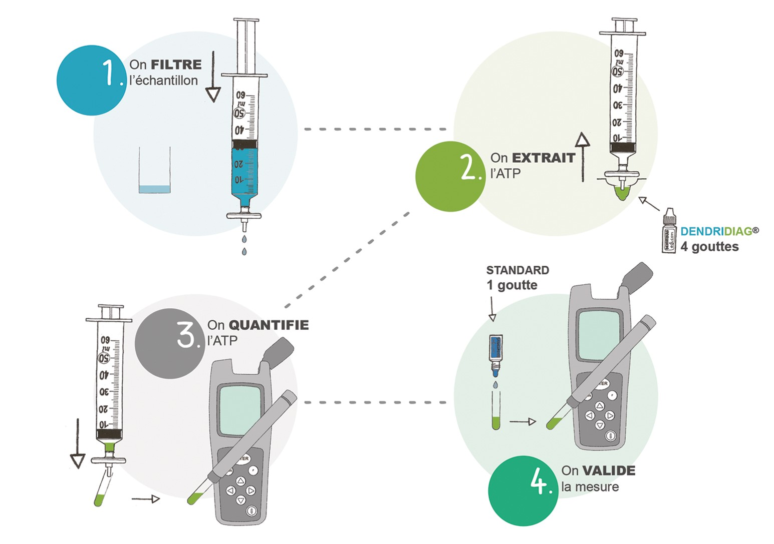 Protocole d'ATPmétrie quantitative en 4 étapes avec filtration de l'échantillon et ajout dosé interne